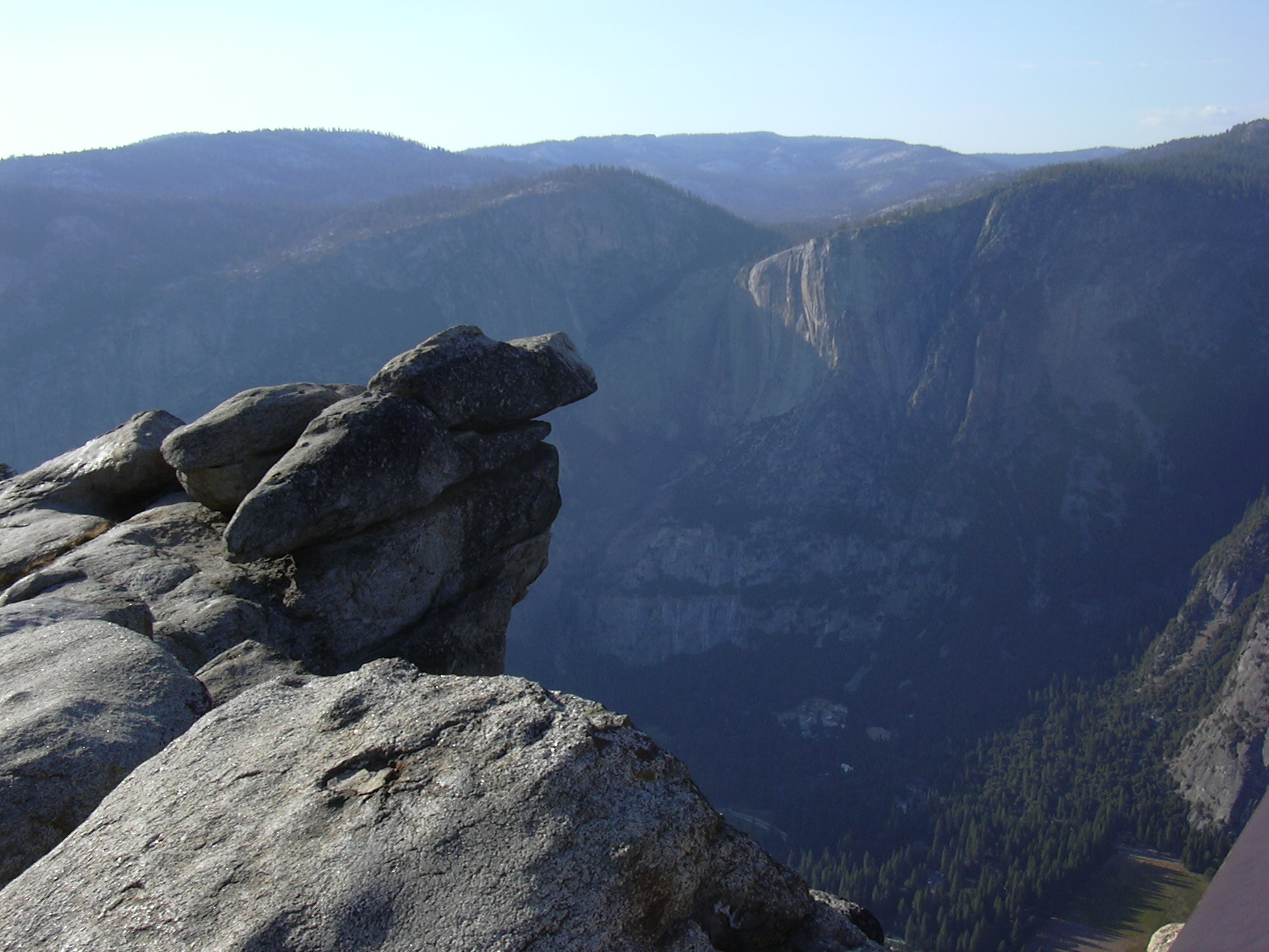 Glacier Point outcrop with view of Yosemite Valley